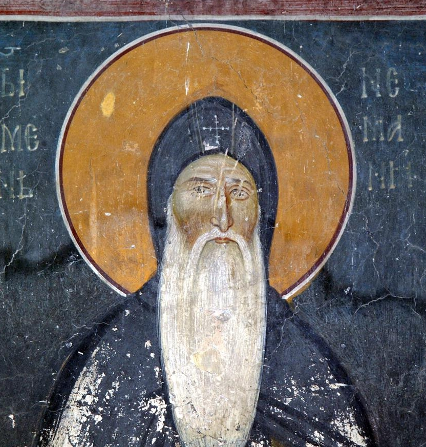 The fresco of young Saint Simeon, King`s Church in Studenica, Serbia